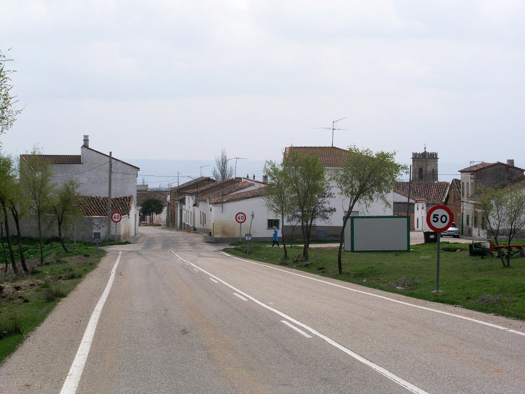 CM-1002 road in Usanos, Provincia de Guadalajara, Castilla-La Mancha, Spain. The photo was taken the 8th of April 2004 by Håkan Svensson (Xauxa)